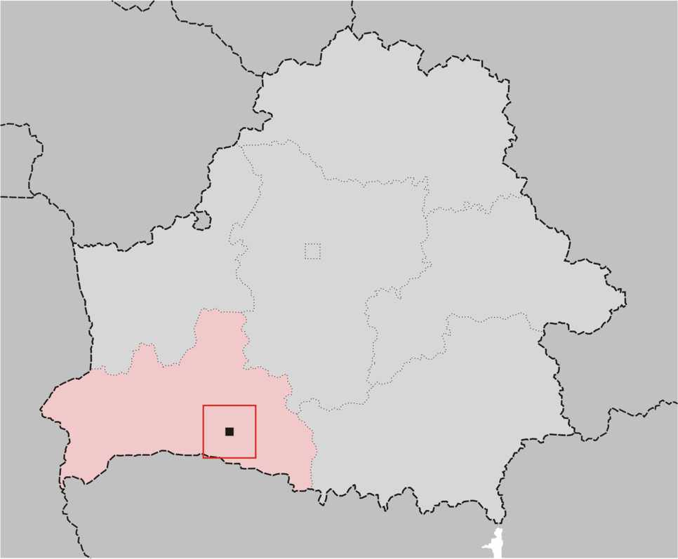 map which demonstrated where the city of Pinsk is located, within Brest, Belarus